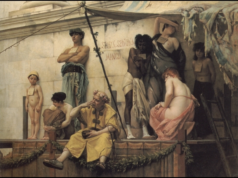 The Slave Market)